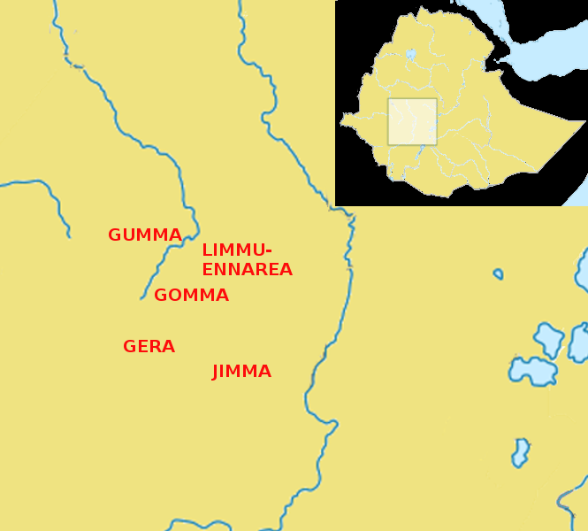 Map showing the five Gibe kingdoms (19th century). Based on "The Oromo of Ethiopia: A History 1570-1860" by Mohammed Hassen.